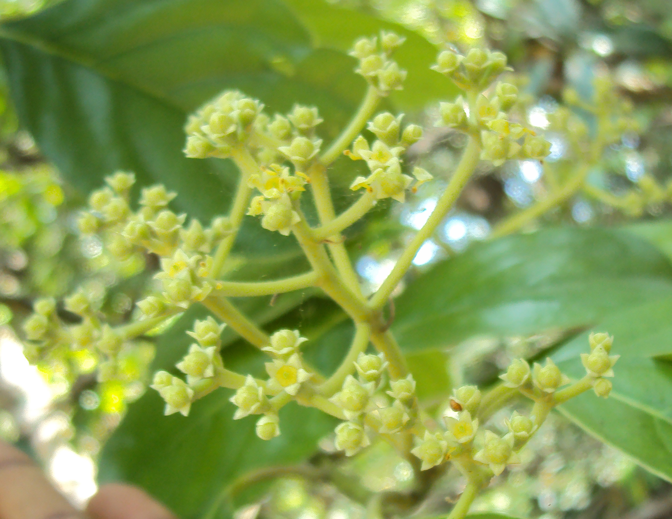 Mastixia arborea